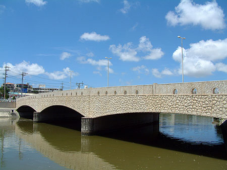 Madan Bridge